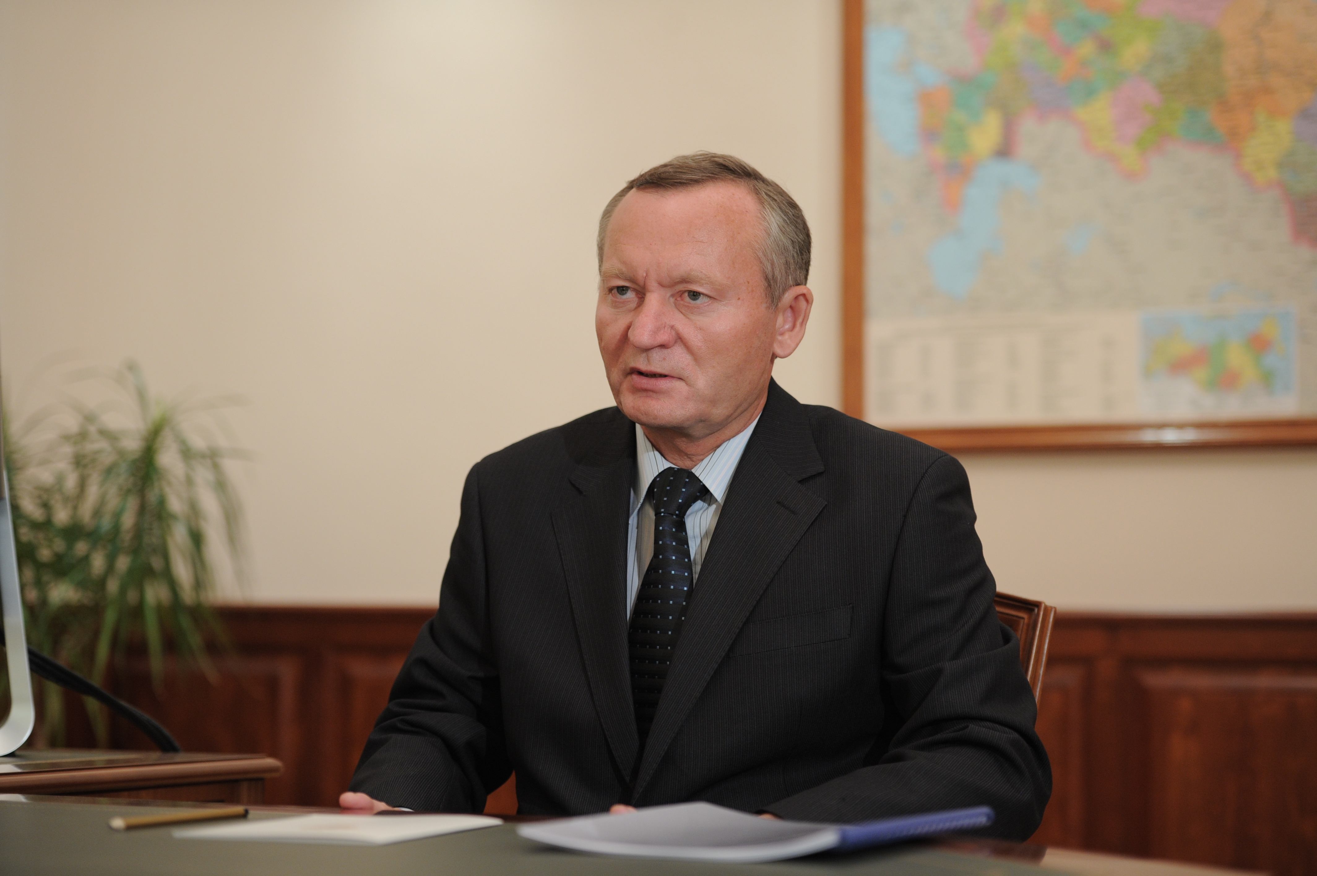 Trans-Baikal Territory Governor Ravil Geniatulin at a meeting with Prime Minister Vladimir Putin